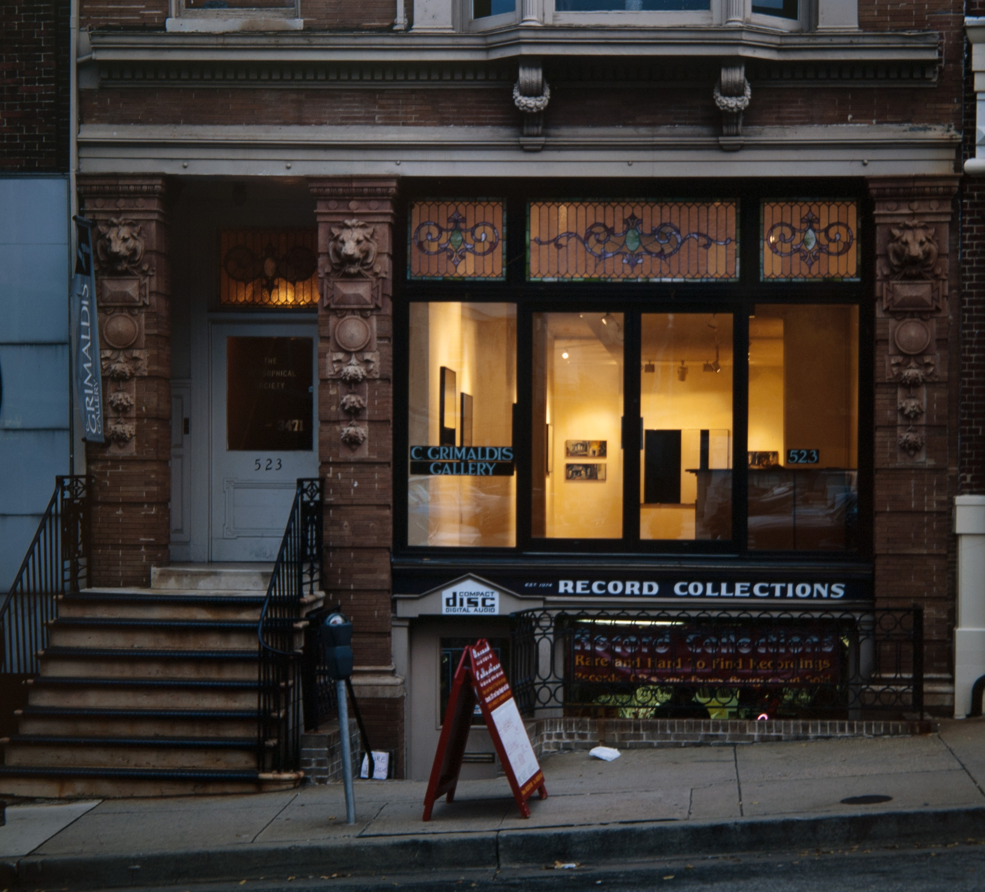 The C. Grimaldis Gallery 523 North Charles Street location.